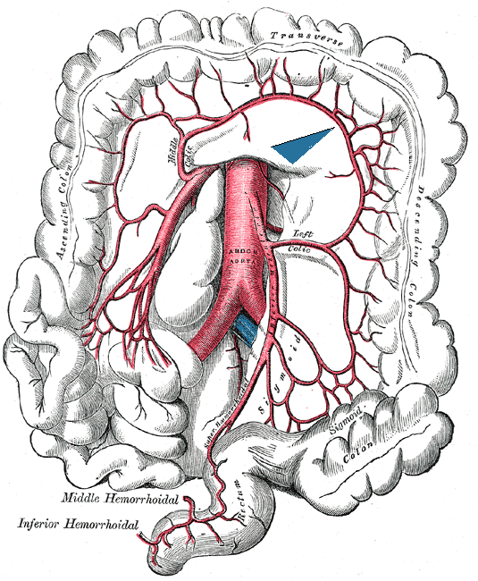 The superior mesenteric artery and its branches. Arc of Riolan marked with arrow.